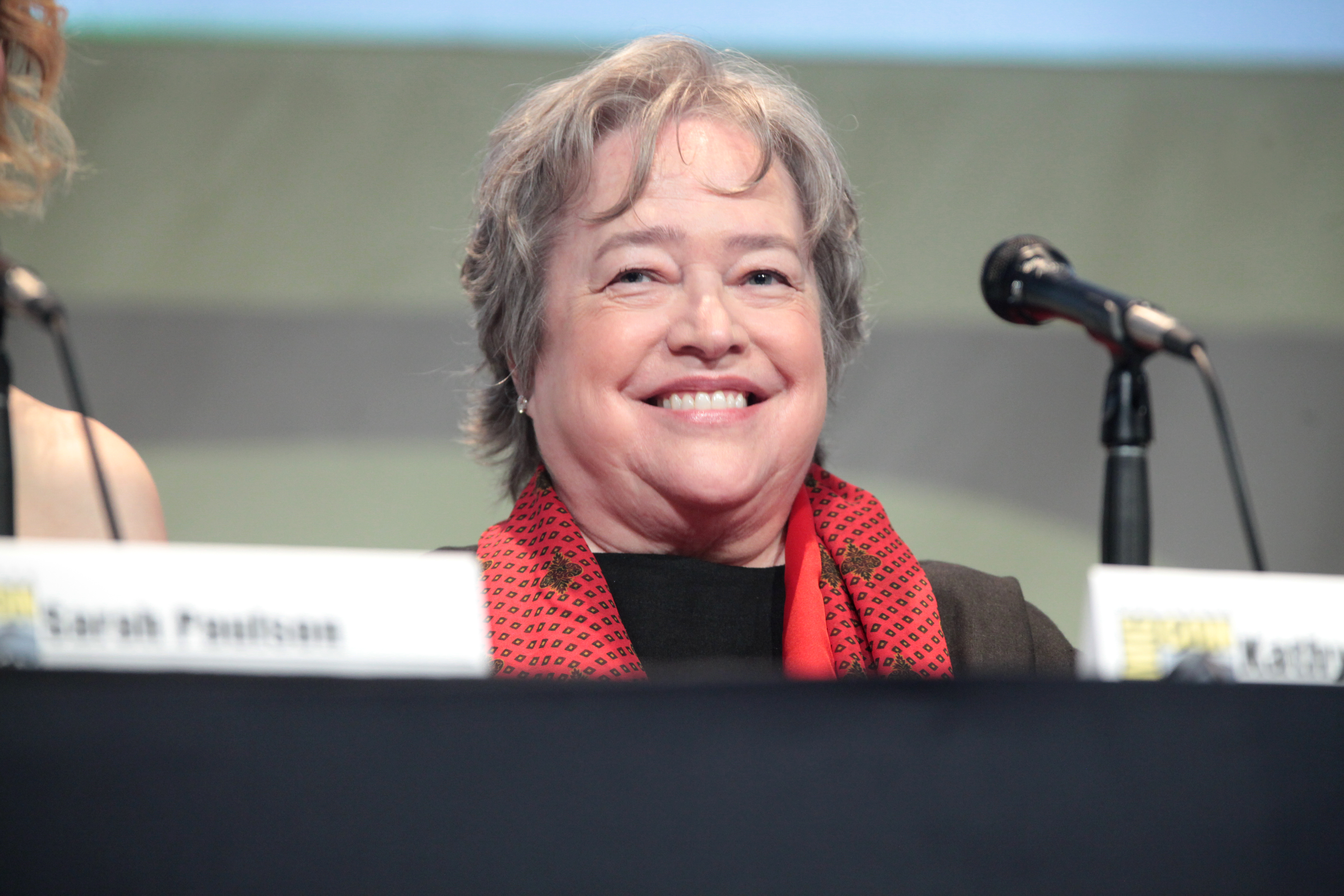 Kathy Bates speaking at the 2015 San Diego Comic Con International, for "American Horror Story", at the San Diego Convention Center in San Diego, California.